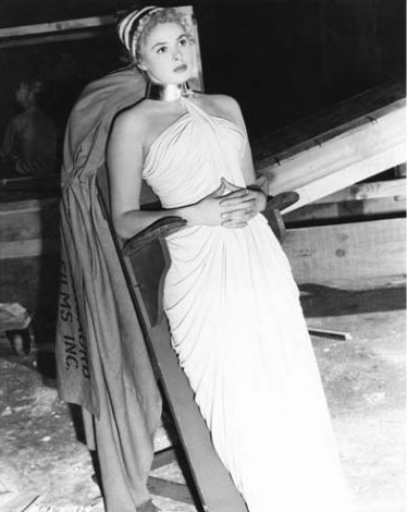 Ingrid Bergman relaxing on set Spellbound (1945). See also film still. No copyright notice.